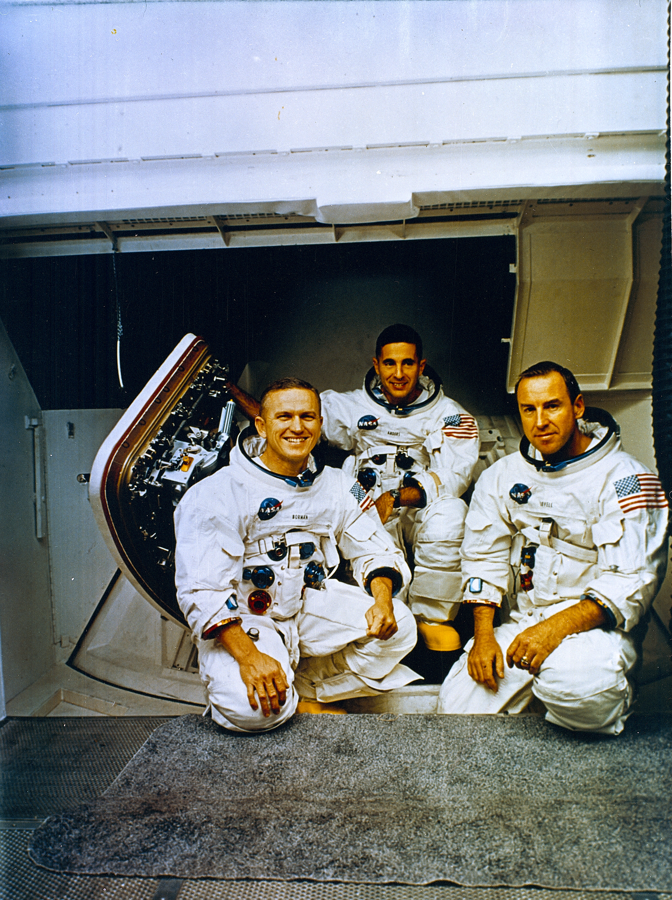 The Apollo 8 Crew (L to R) Frank Borman, commander; William Anders, Lunar Module (LM) Pilot; and James Lovell, Command Module (CM) pilot pose in front of the Apollo mission simulator during training.